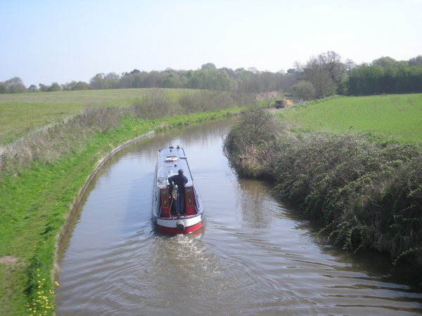 A pleasant day out on the Llangollen Canal.